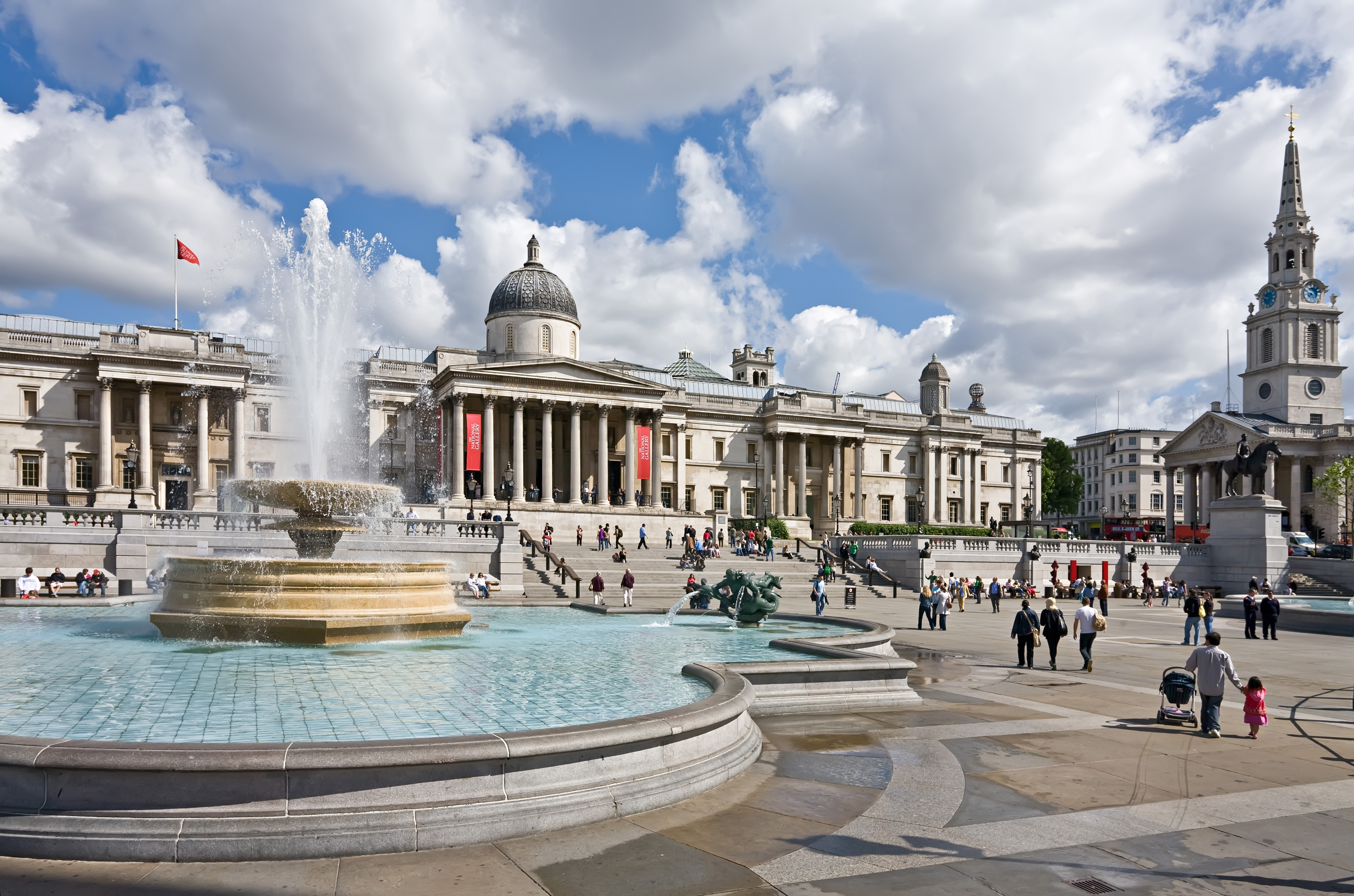 A perspective corrected image of Trafalgar Square in London, England. Taken by me with a Canon 5D and 17-40mm f/4L lens.